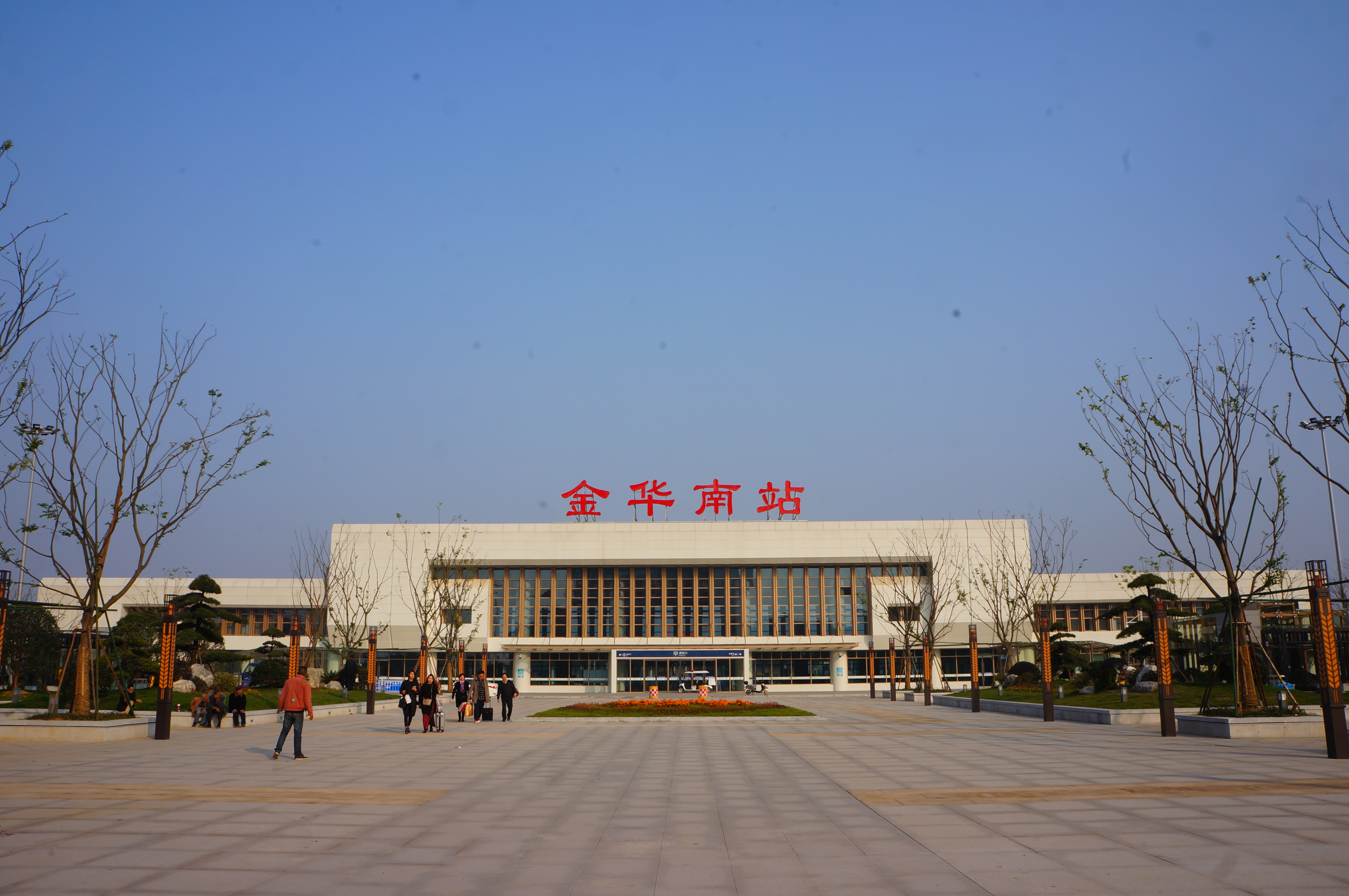 201612 Jinhuanan Railway Station